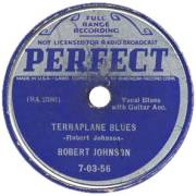 A record od Robert Johnson's Terraplane Blues, issued by Perfect Records